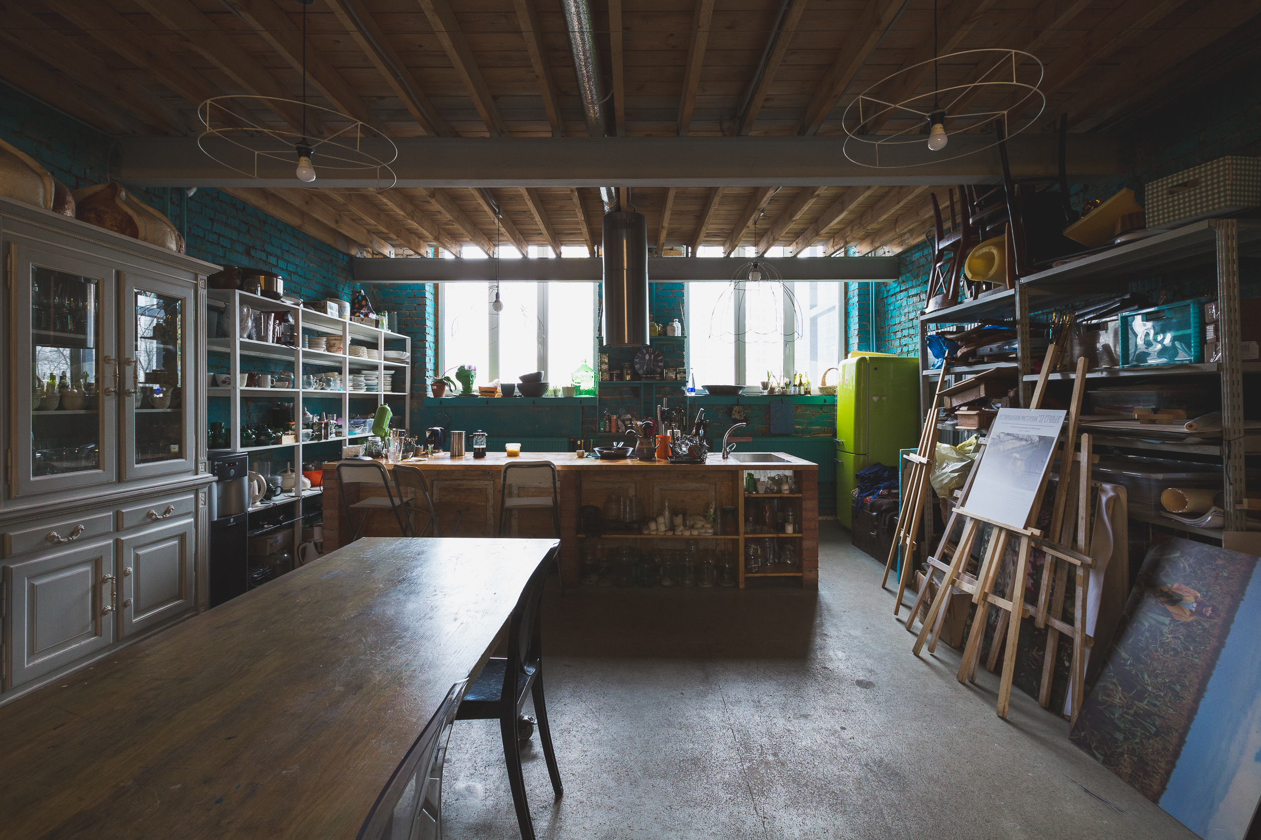 Flacon Design Factory